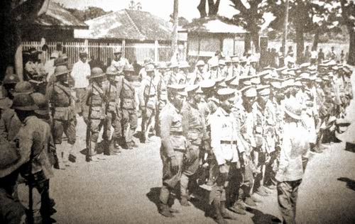 Photograph, of Troops from the government side in the Boworadet rebellion